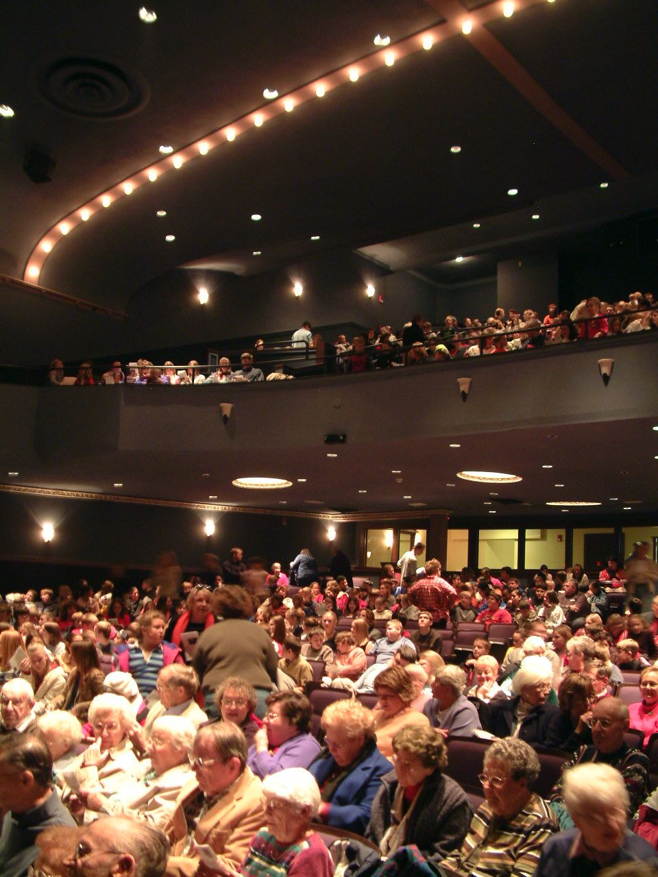 The house lights highlight a growing morning matinee audience which later reached near capacity by the time of curtain call in a newly rejuvenated Englert auditorium. The performance was a music-infused stage adaptation of the holiday tradition of Charles Dickens' A Christmas Carol at which patrons were requested to "check your 'humbugs' at the door."